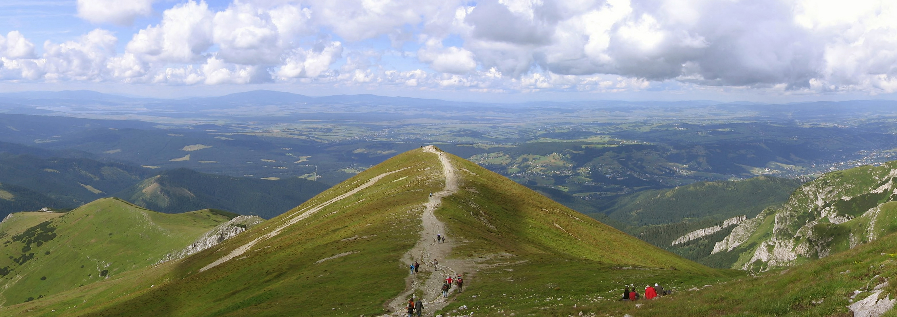 Panorama from approach to Ciemniak peak at Czerwone Wierchy (Tatra Mountains)